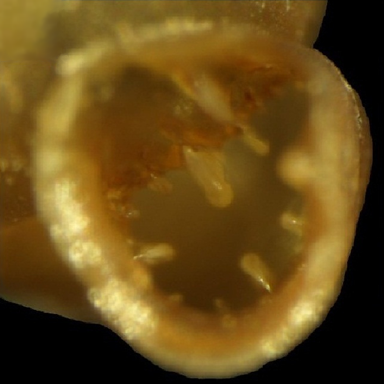 Photo of a detail of an aperture of Bensonella plicidens.